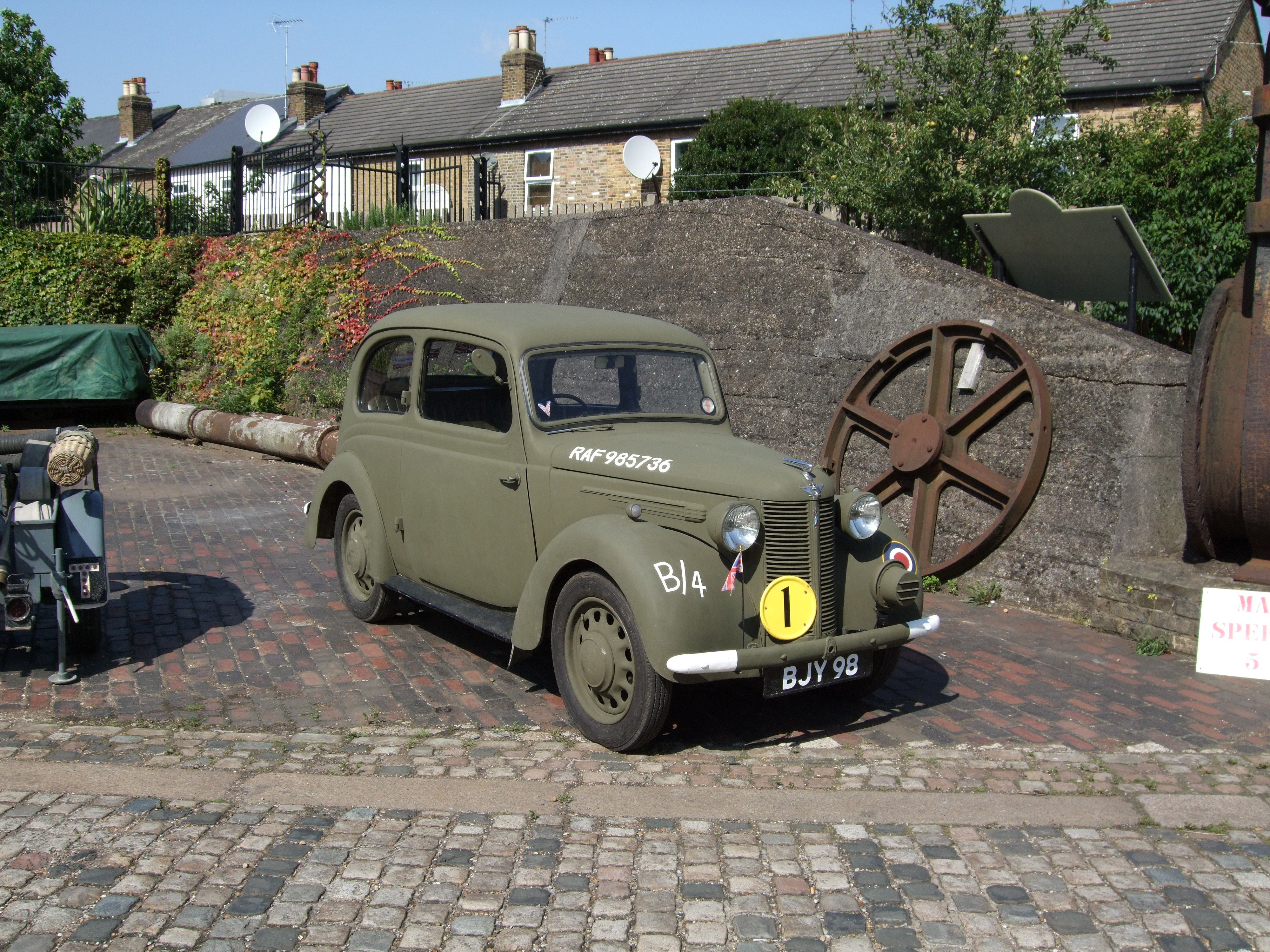 Austin 8 2-door saloon (DVLA) manufactured 1939, 900 ccThe Austin 8 was a small car made by the Austin Motor Company. Launched in 1939 and produced into the war (at least until 1942), about 9,000 of the wartime Austin 8 models were two-seater tourers produced for the military and government, and the rest were saloons. After World War II, the model was made from 1945 to 1947.